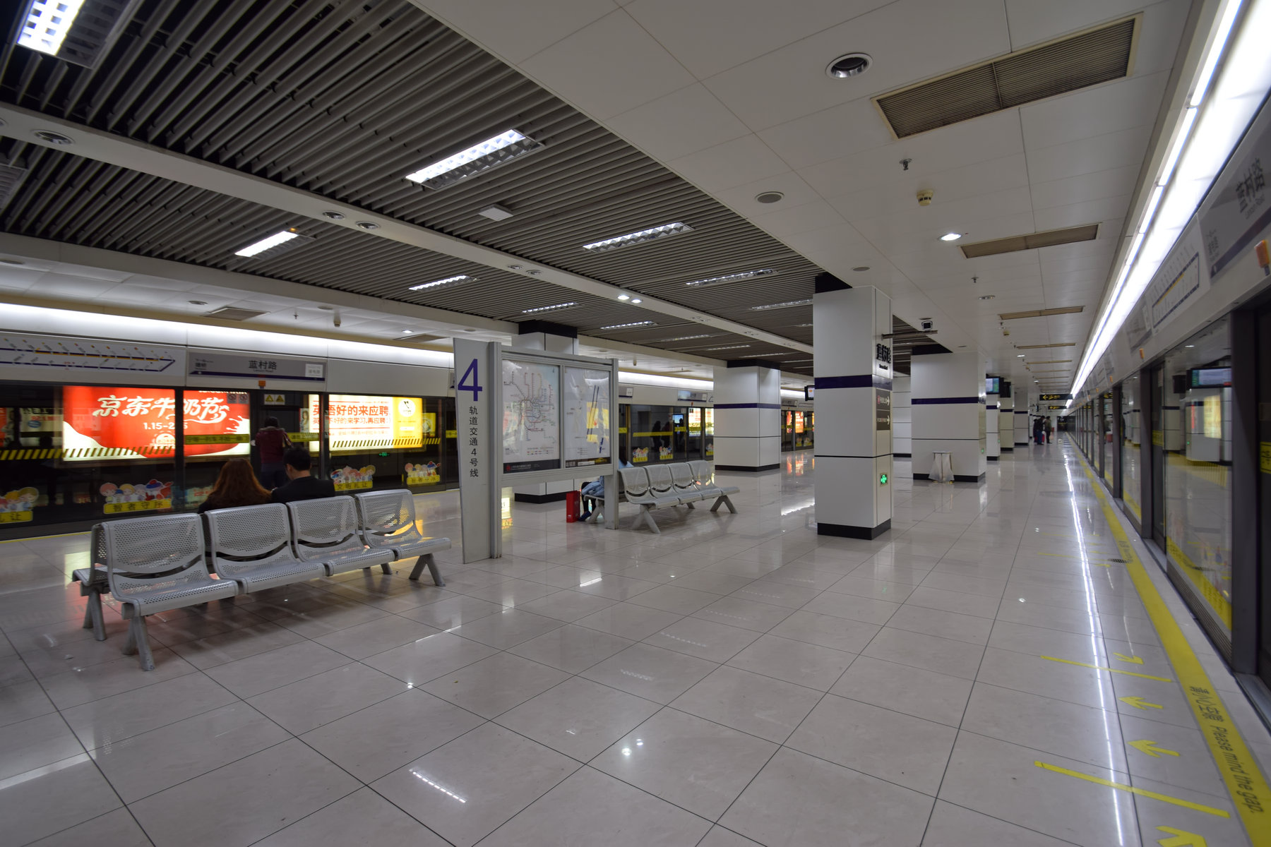 Line 4 Platform of Lancun Road Station, Shanghai Metro